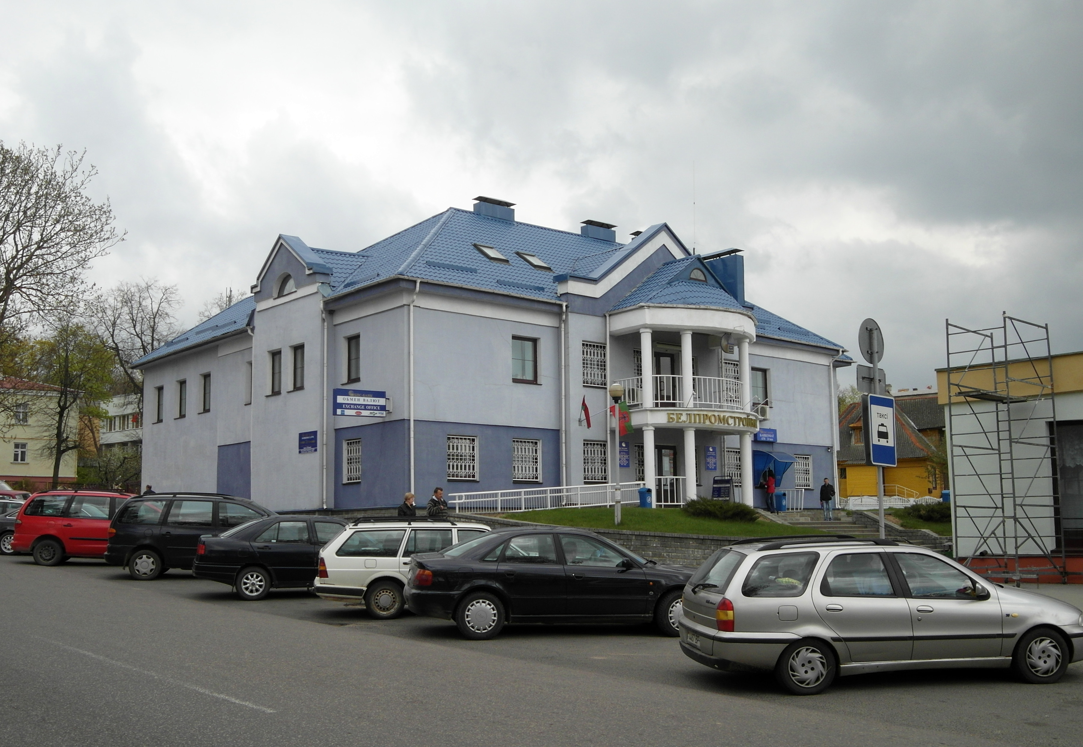 BPS-Bank Navahrudak Branch, 17/A Mitskevicha Street